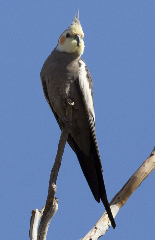 Nymphicus hollandicus, Karratha, Pilbara region, Western Australia